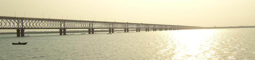 Panorama of the Godavari Bridge from the banks of river Godavari in Rajahmundry, India. Godavari Bridge is the longest road/rail bridge in Asia with a length of 2.7 kilometers. Constructed by the Hindustan Construction Company (HCC), this bridge is a modern day engineering feat. The bridge is fit for 250 km/h (160 mph) rail services. It was commissioned by South Central Railway of India on 11 March 1997. The bridge links East and West Godavari districts of state Andhra Pradesh.